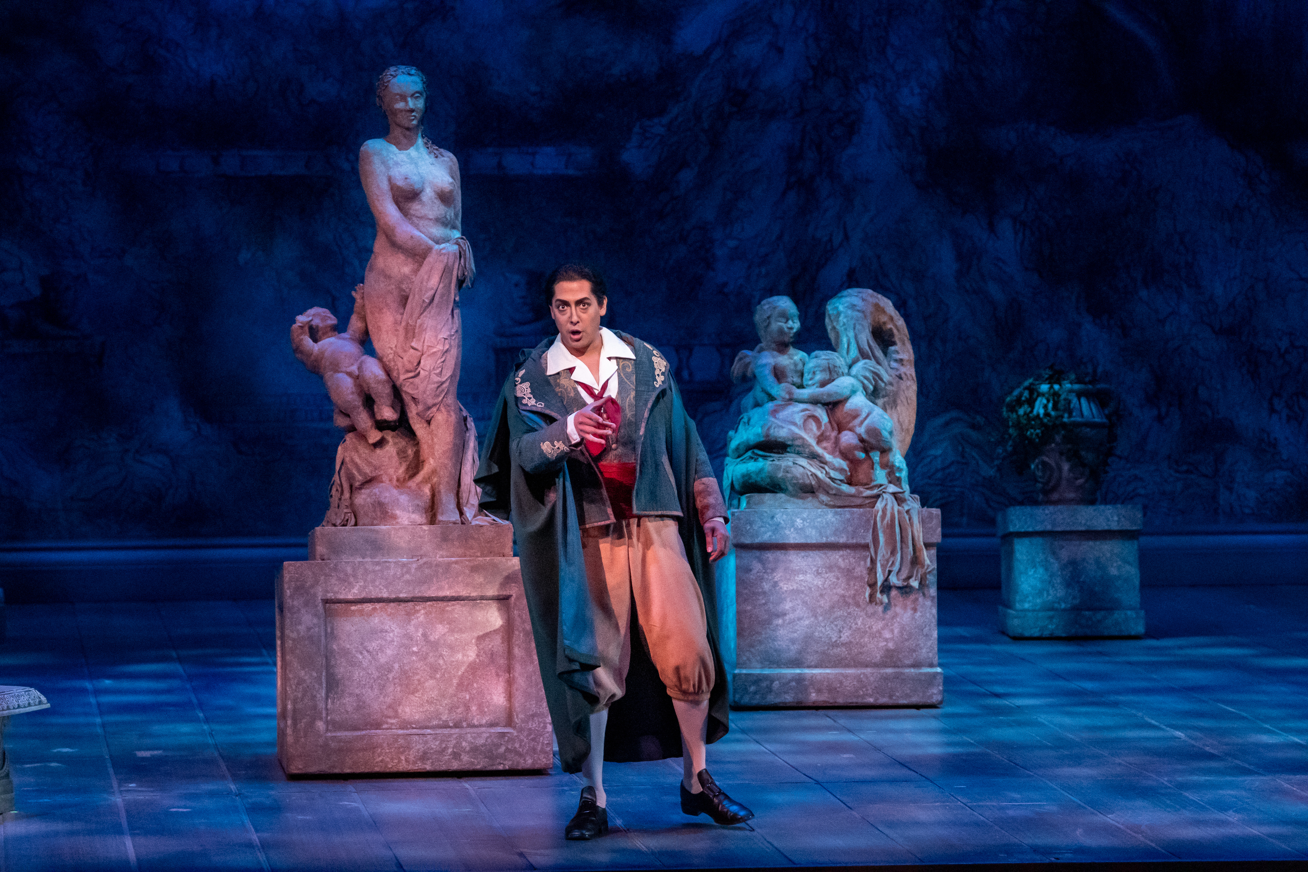 Bass-baritone Calvin Griffin as Figaro